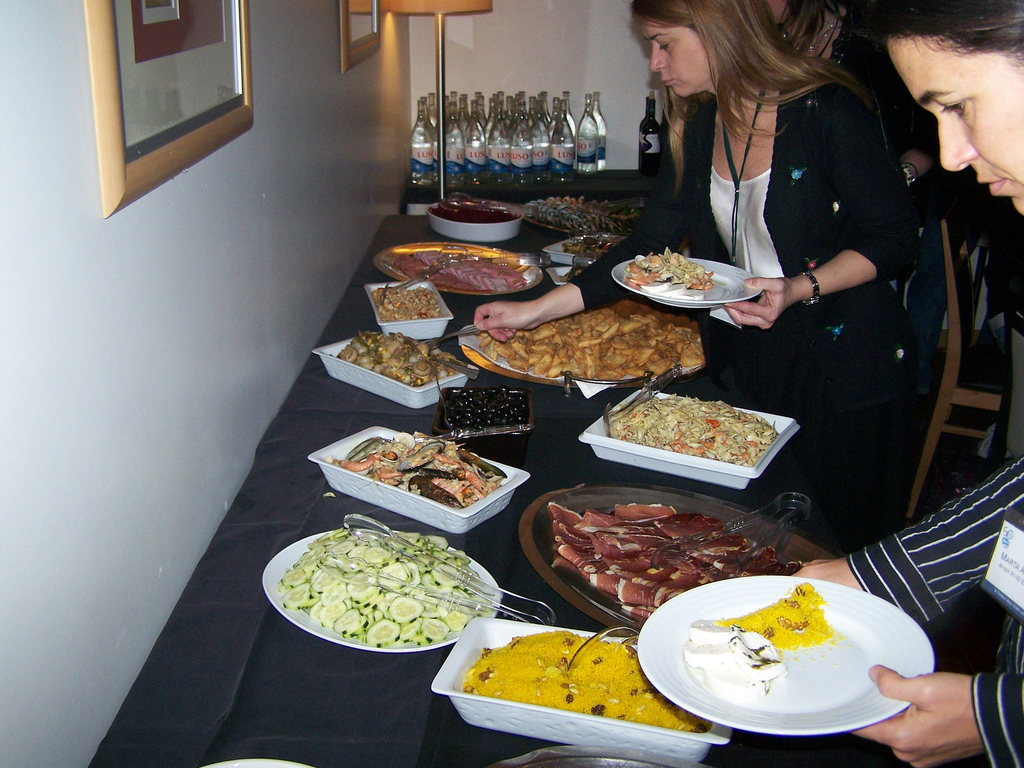 A part of the aniversary buffet